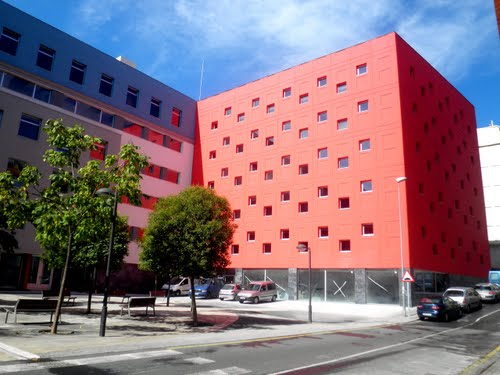 Bilbao, Cantera square